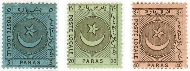 In August of 1865 the local post distribution company “Liannos et Cie” was established to distribute the mail arriving at Constantinople which was not addressed in Arabic as the staff of the Ottoman Postal Service were not able to do so. Liannos charged a price for each piece of mail based on the distance from the city centre. To manage these charges, in the autumn of 1865 Liannos issued three stamps, with denominations of 5, 20 and 40 paras, printed by Perkins Bacon of London. These stamps are mostly perforated 14 but some are imperforate. Liannos would attach the stamps to letters coming from abroad and charge the recipient the postal fee, using an oval handstamp with the word Liannos and the date to cancel the stamp. The mint stamps are fairly common but genuinely used are scarce.